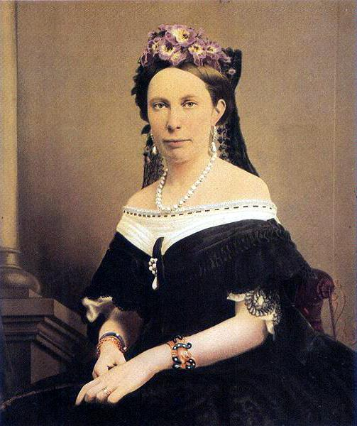 Queen Louise of Sweden around 1865